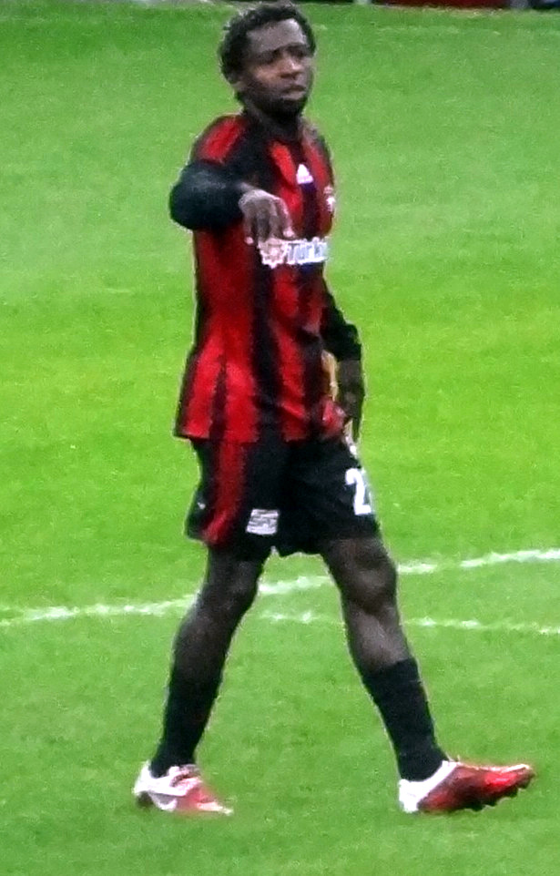 binya vs galatasaray